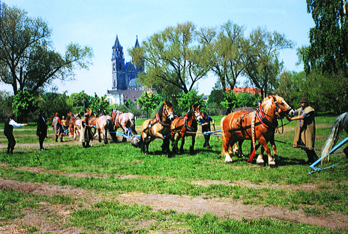 Reconstruction of the Magdeburg hemisphere experiment in Magdeburg. The Magdeburg Cathedral in the background